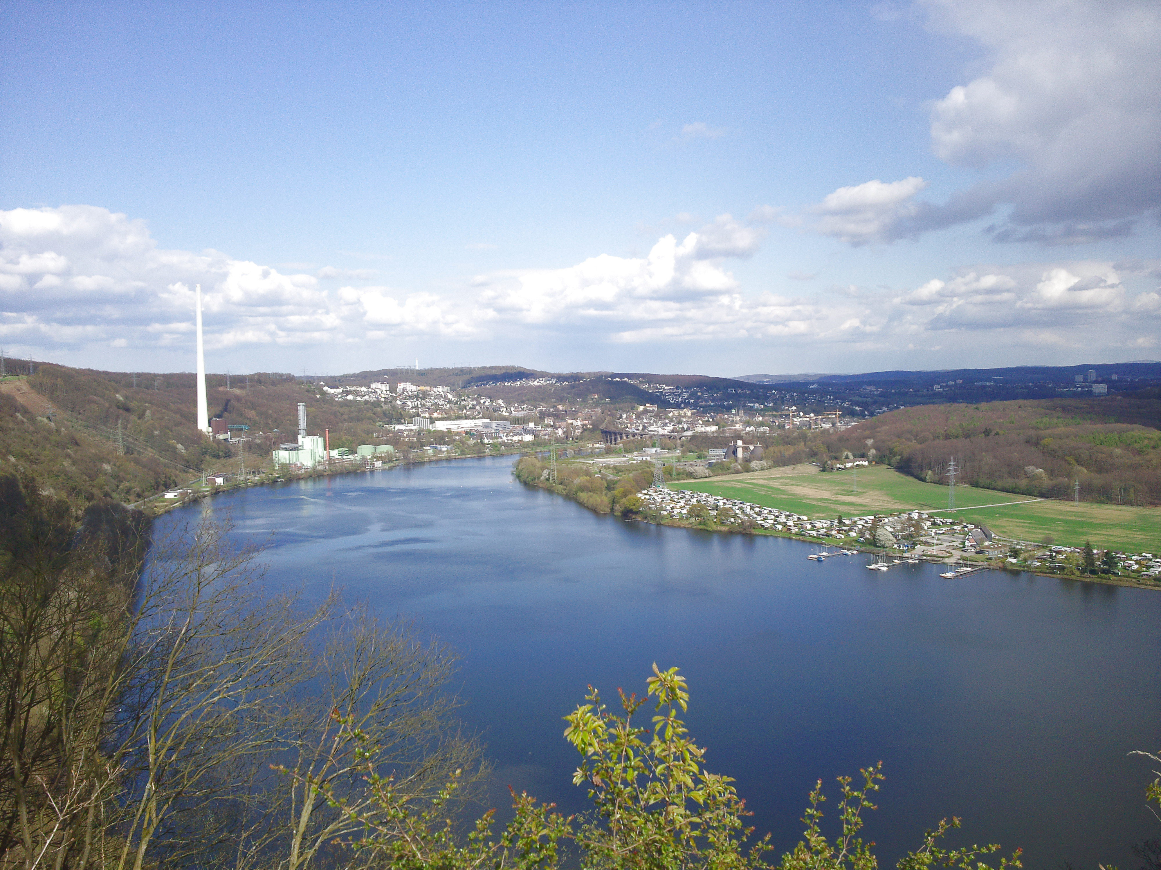 Harkortsee lake on the Ruhr river near Wetter, Germany